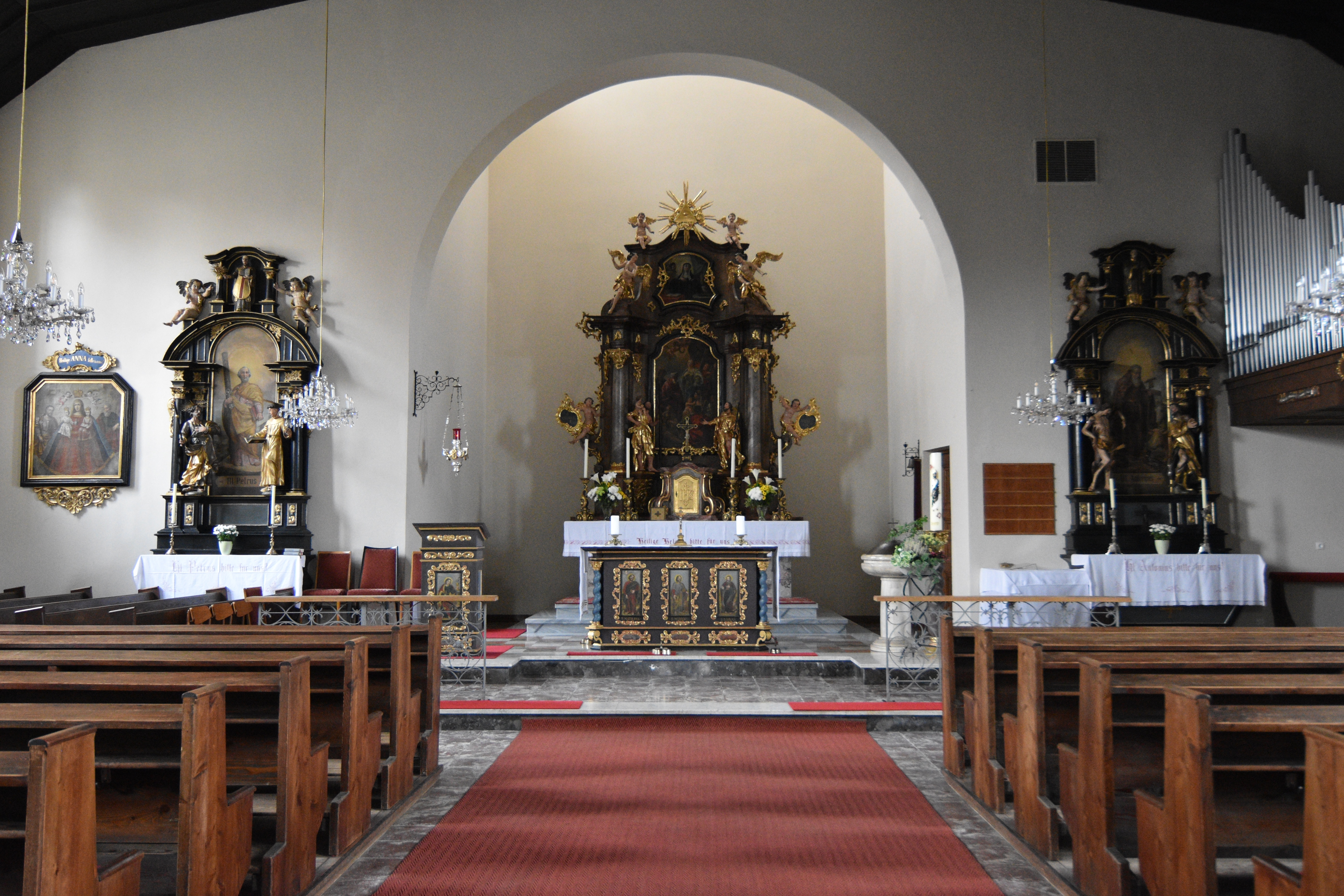 Church Ottendorf an der Rittschein